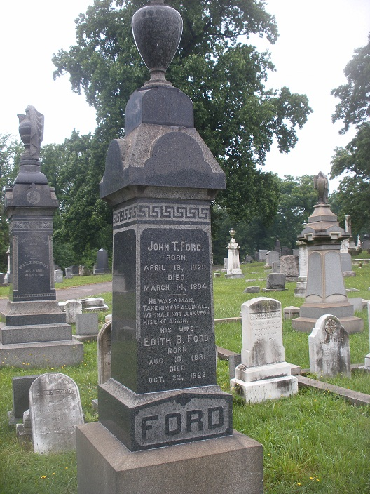 The grave of John T. Ford, operator of Ford's Theater, at the Loudon Park Cemetery, Baltimore, MD